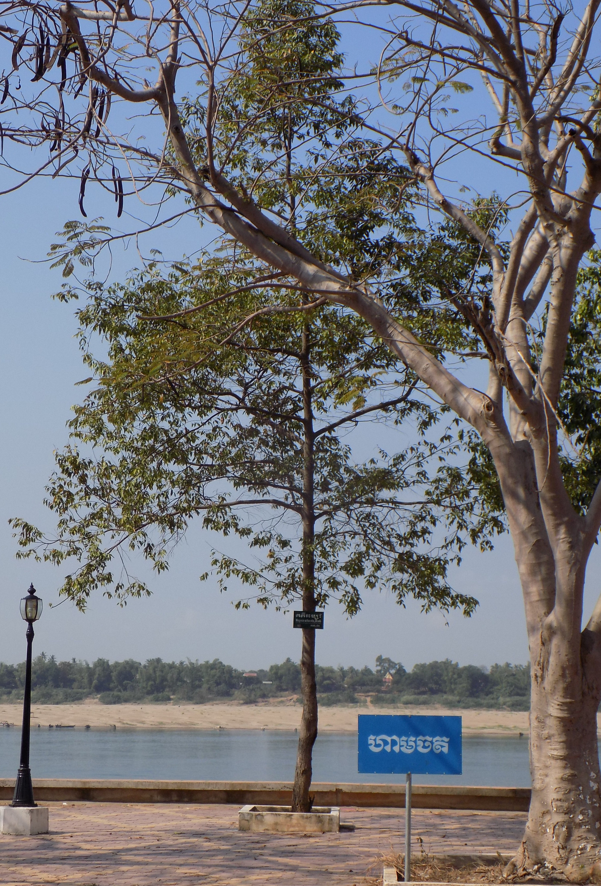 Hopea odorata in Kratie, Cambodia